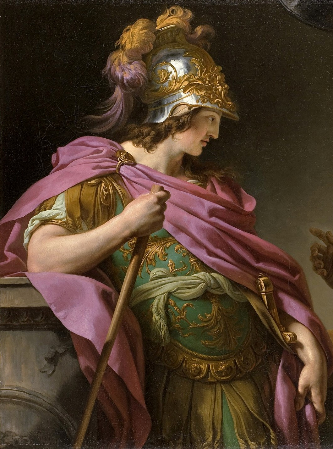 This is a cropped version of the painting Alcibiades Being Taught by Socrates, painted in 1776 by François-André Vincent, showing just the figure of Alcibiades.